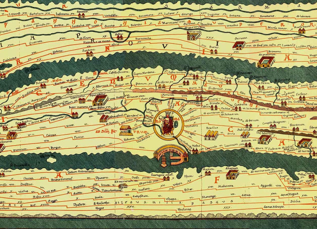 Tabula Peutingeriana, 1-4th century CE. Facsimile edition by Conradi Millieri, 1887/1888